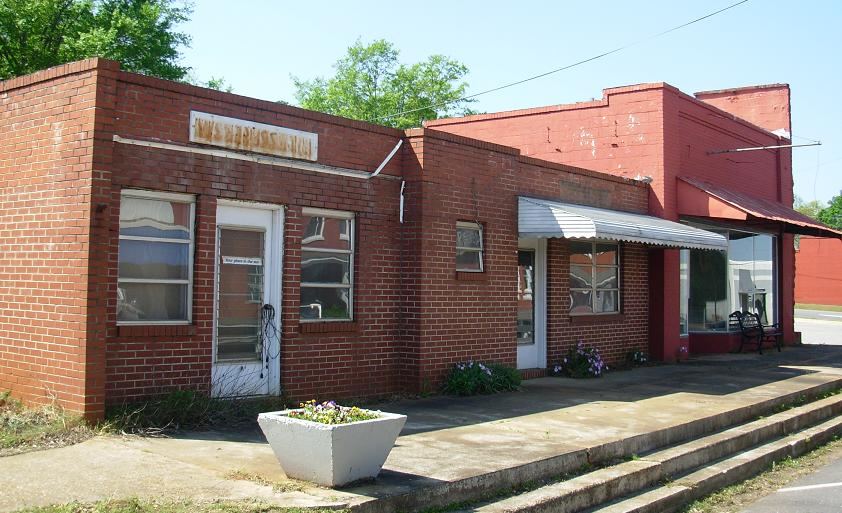 Rivers Langley